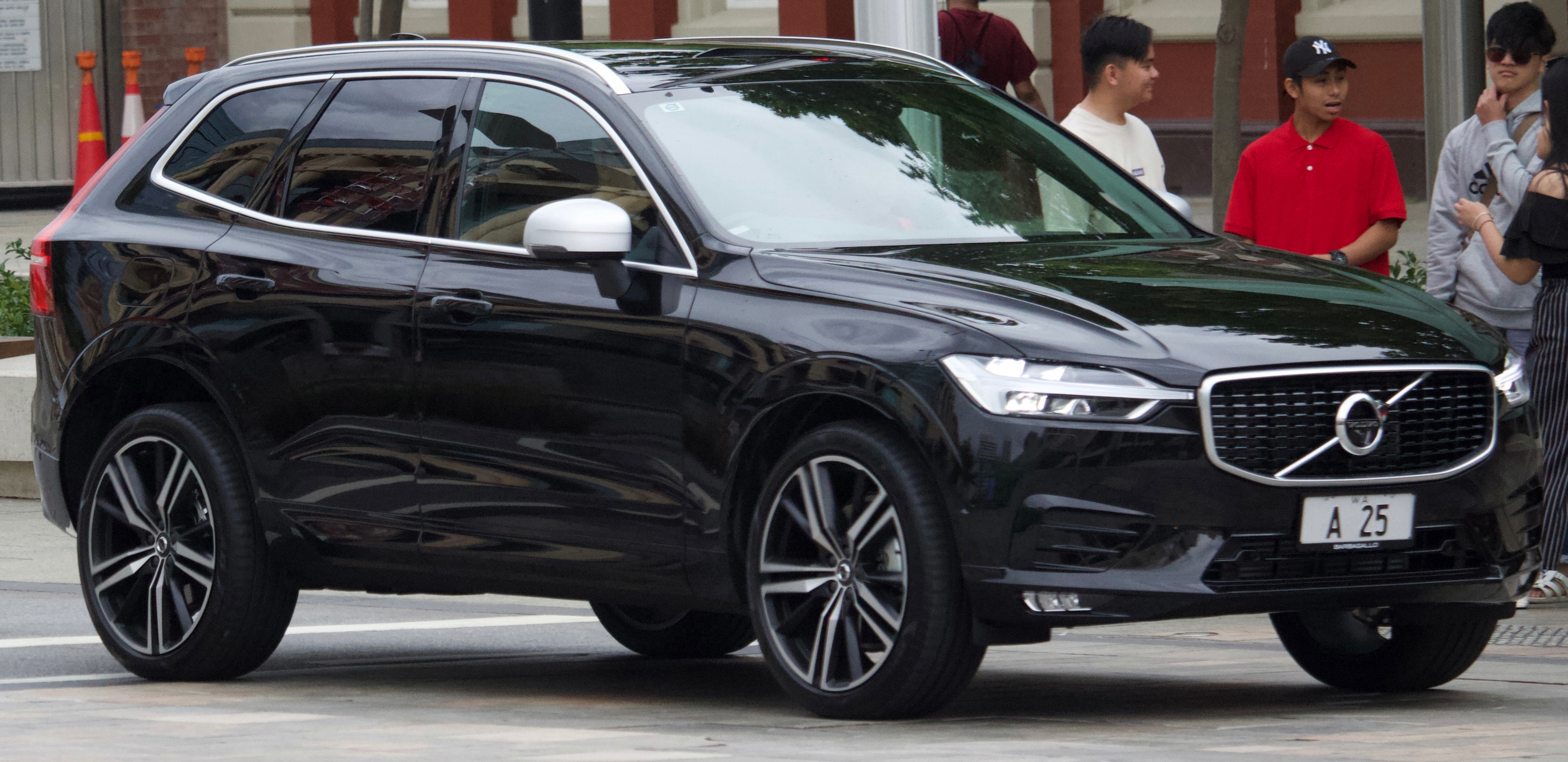 2017 Volvo XC60 T6 R-Design wagon. Photographed in Perth, Western Australia, Australia.